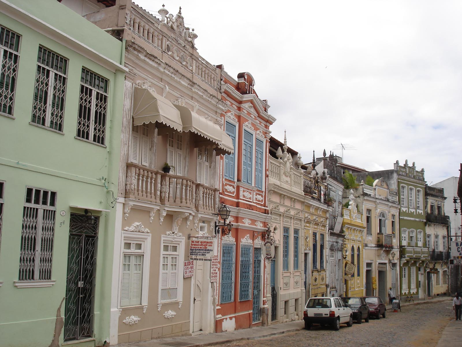 Houses in the Historical Centre of Salvador, Bahia, Brazil